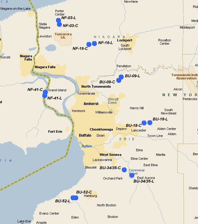 Niagara Falls-Buffalo Defense Area Nike Missile Sites